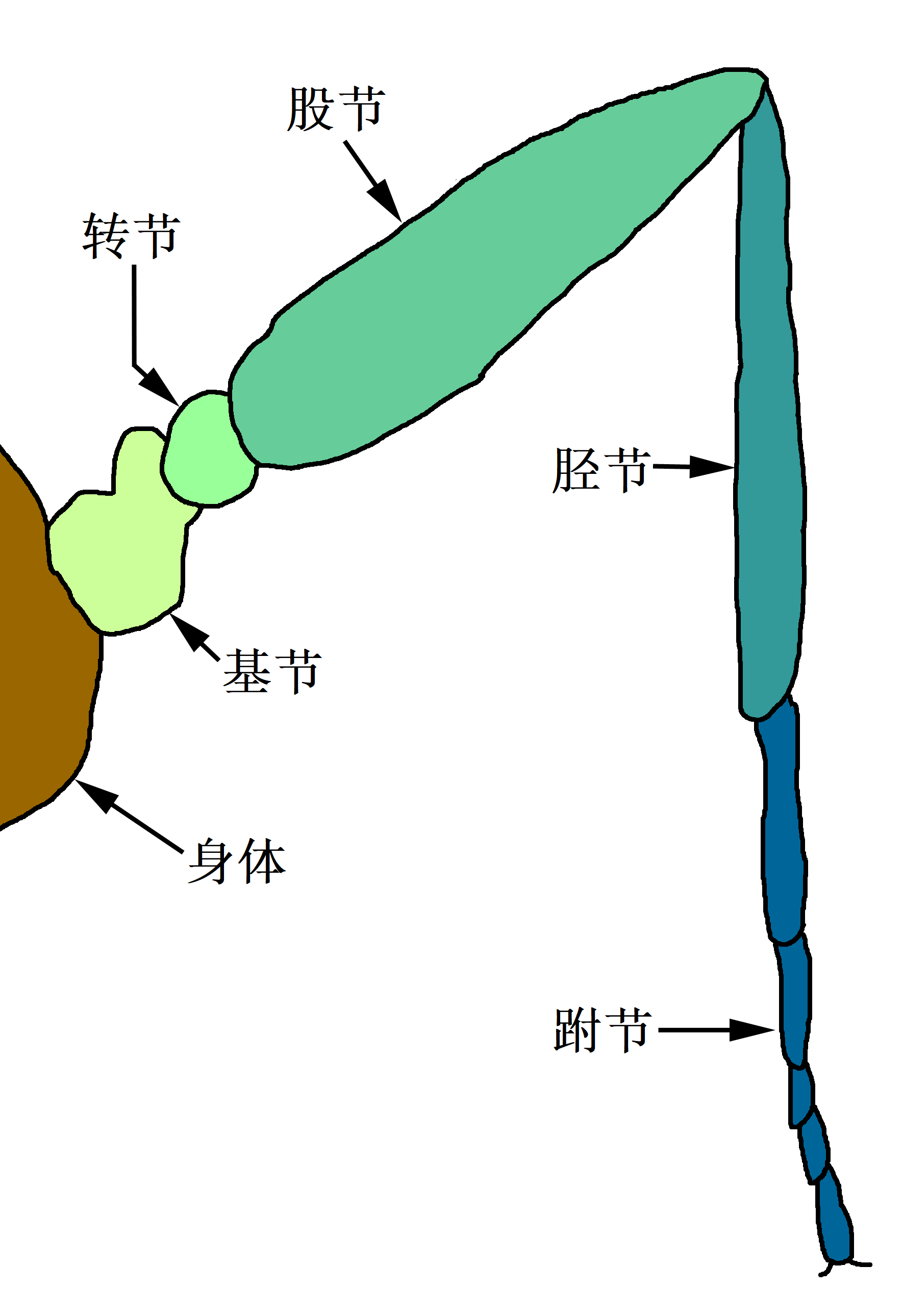 The ancestral form of the insect leg, showing the five named parts. Evolution has eliminated parts or greatly modified parts in some insects.